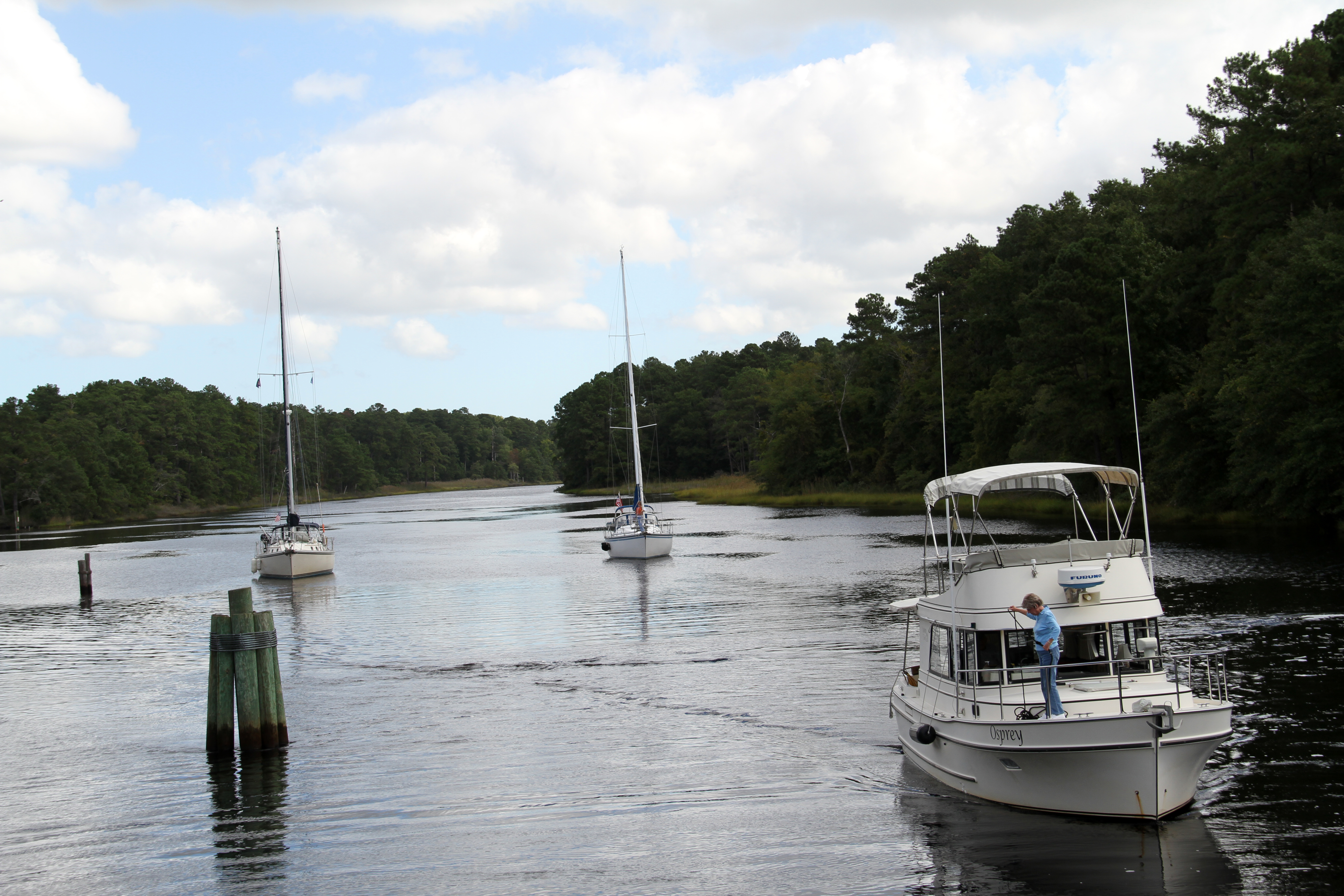 CHESAPEAKE, Va. -- Four vessels arrive for the 11 a.m. transit through the Deep Creek Locks. (U.S. Army photo/Pamela K. Spaugy)